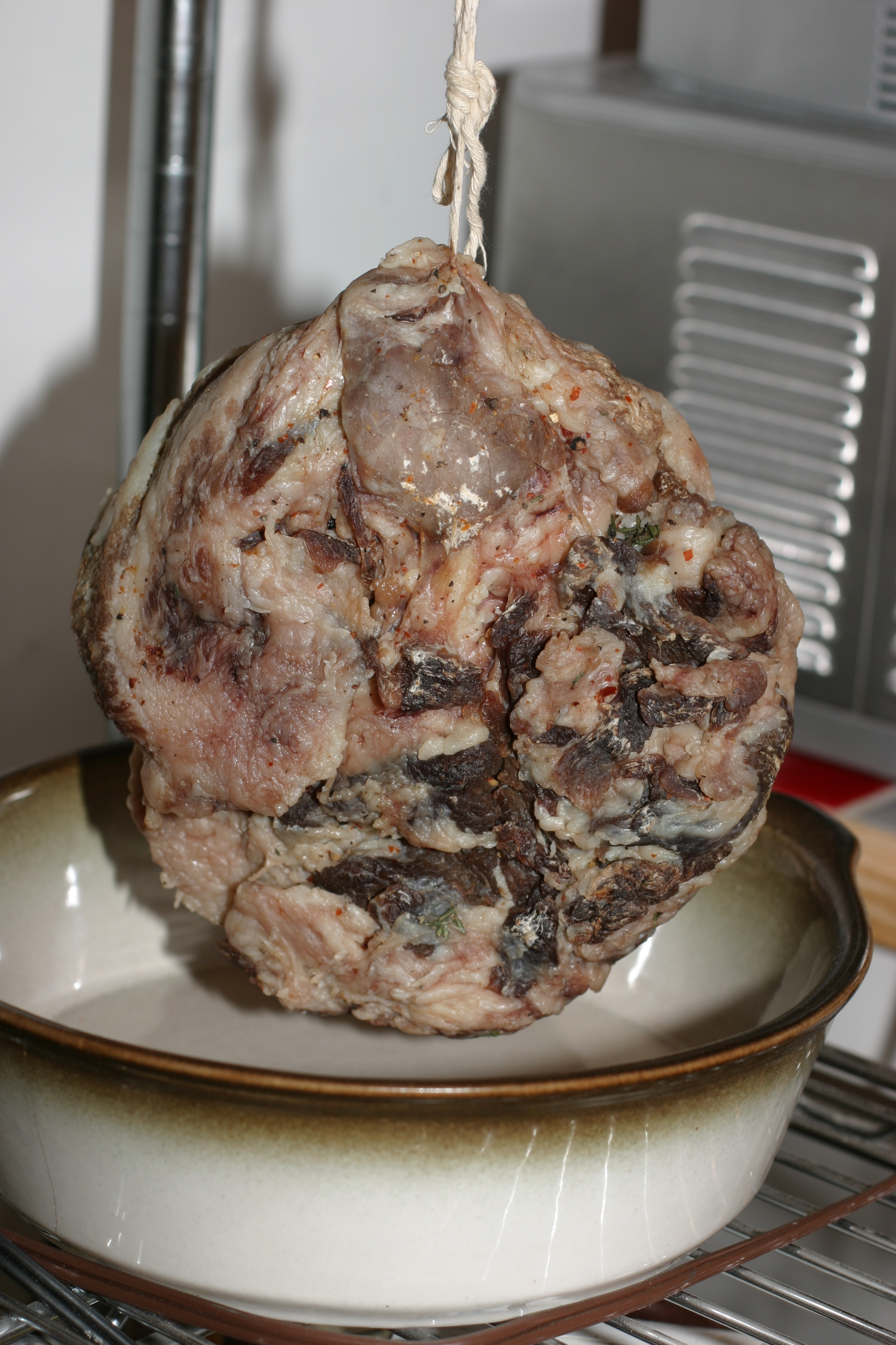 A piece of guanciale being aged.